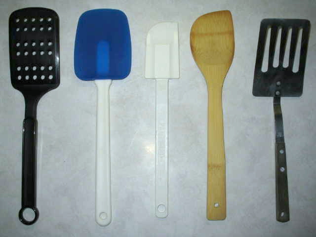 A selection of kitchen spatulas